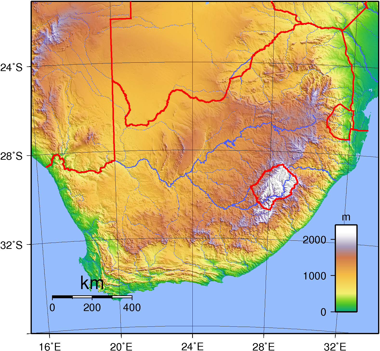 Topographic map of South Africa. Created with GMT from public domain GLOBE data.